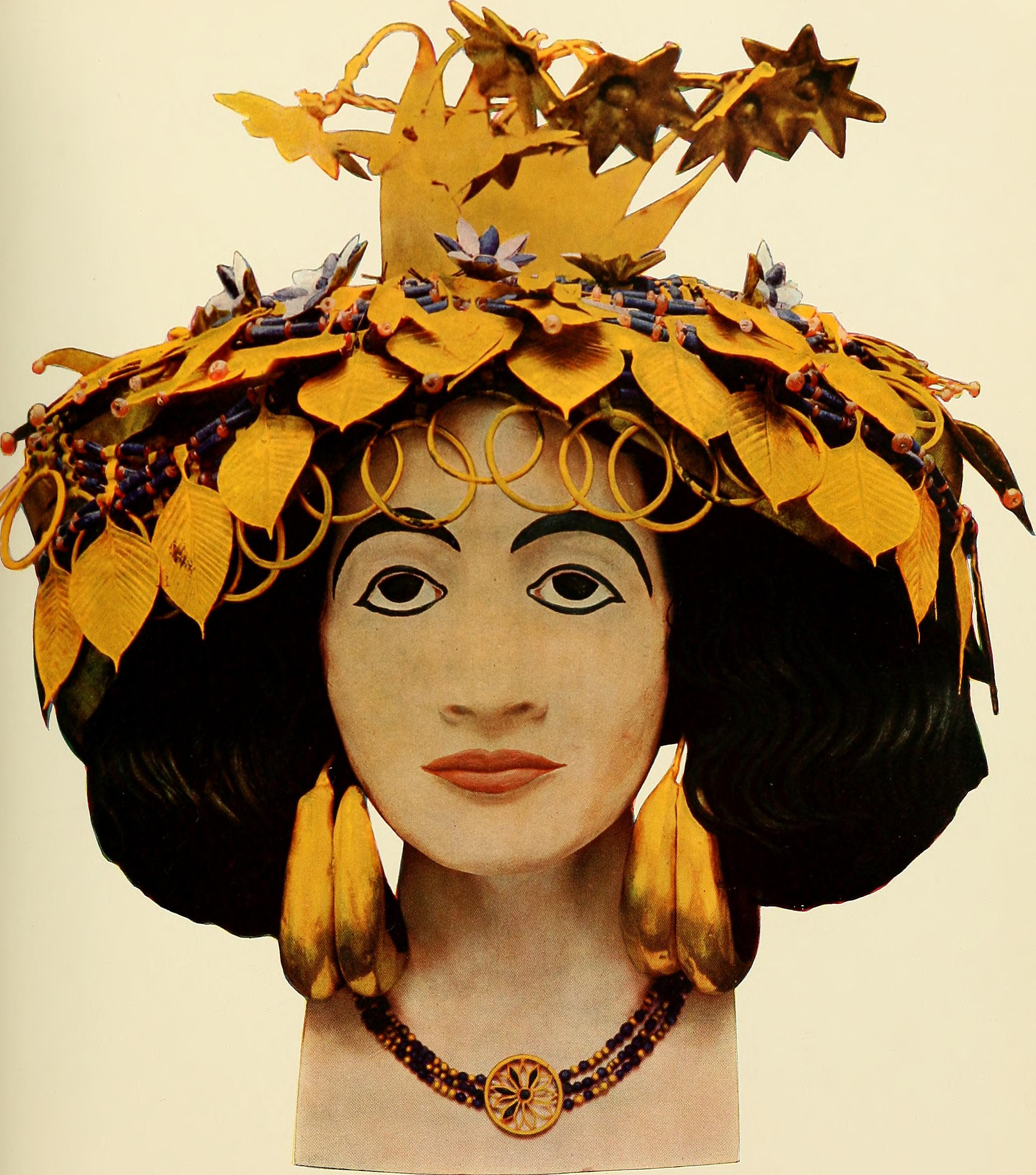 Queen Puabi (wrongly called Shubad) Title: Ur excavations Year: 1900 (1900s) Authors: Joint Expedition of the British Museum and of the Museum of the University of Pennsylvania to Mesopotamia Hall, H. R. (Harry Reginald), 1873-1930, ed Woolley, Leonard, Sir, 1880-1960 Legrain, Leon, 1878- ed Subjects: Publisher: (n.p.) Pub. for the Trustees of the Two Museums by the aid of a grant from the Carnegie Corporation of New York Text Appearing Before Image: PLATE 128 Text Appearing After Image: HEAD-DRESS OF QUEEN SHUB-AD, U. 10933, etc.Scale c. I. V. p. 84 PLATE 129